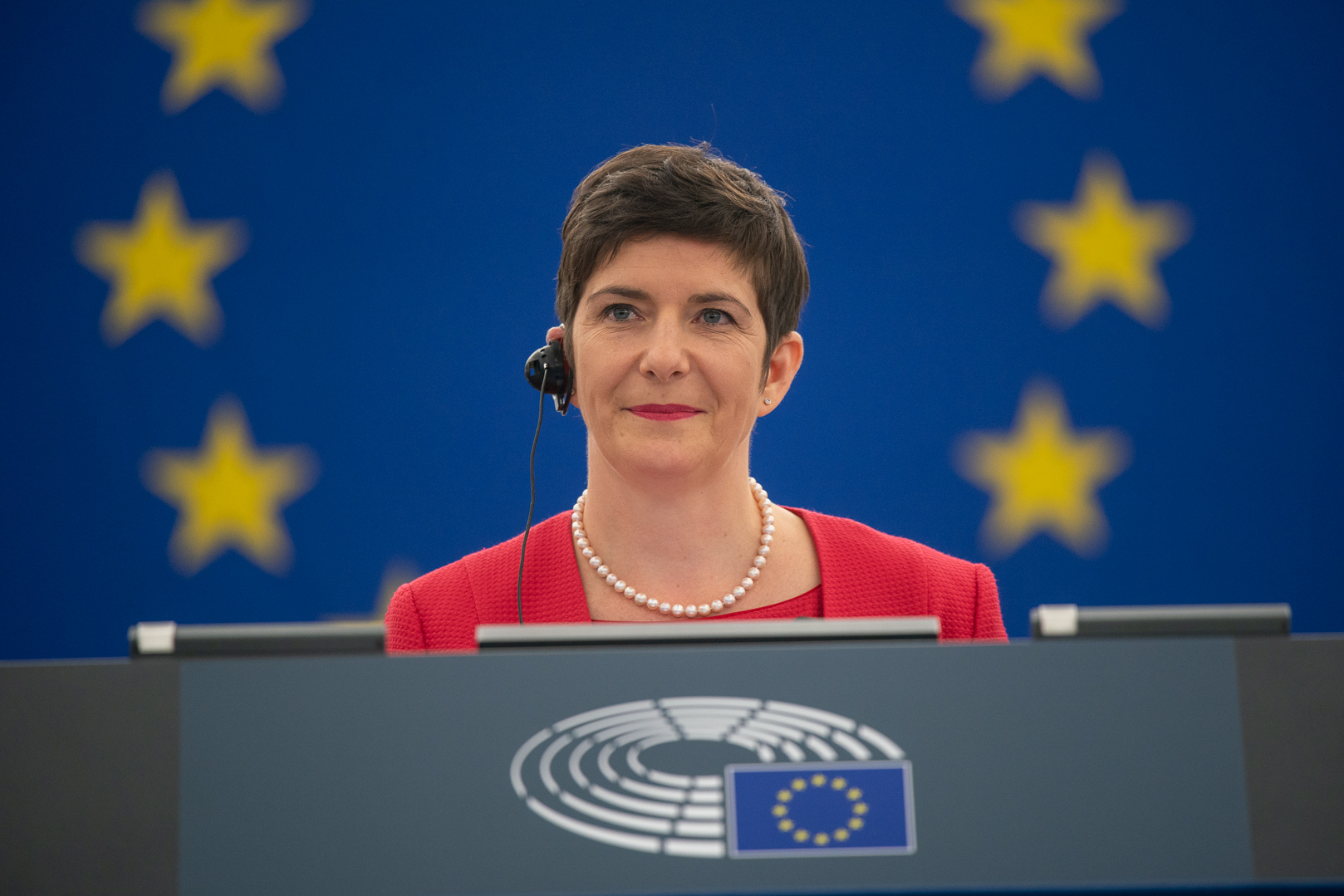 Vice-persident, Ms. Dobrev is charing the plenary at Monday evening